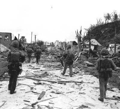 Original Caption: Troops of the 3d Battalion, 3d Marines, enter the wreckage of Agana in the trace of retreating Japanese forces, who had planted land mines before they left. Department of Defense Photo (USMC) 93571 Category:Images of Guam Category:United States Marine Corps images